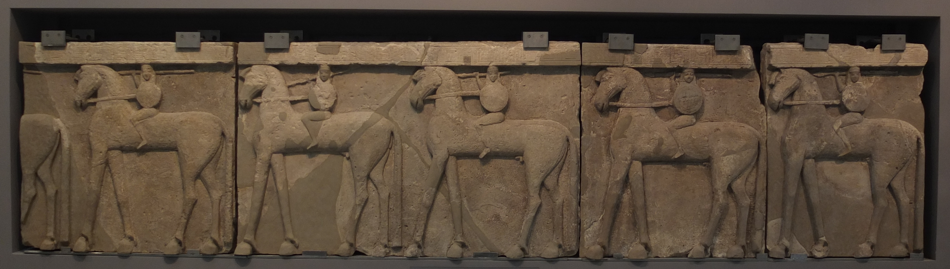 Poros frieze, Temple A, Rizinia (modern Prinias), Archaic period, 7th century BC.